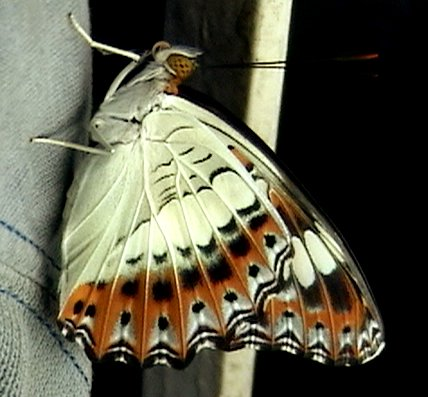 Under wing shot of Commander(Leminitis procris)